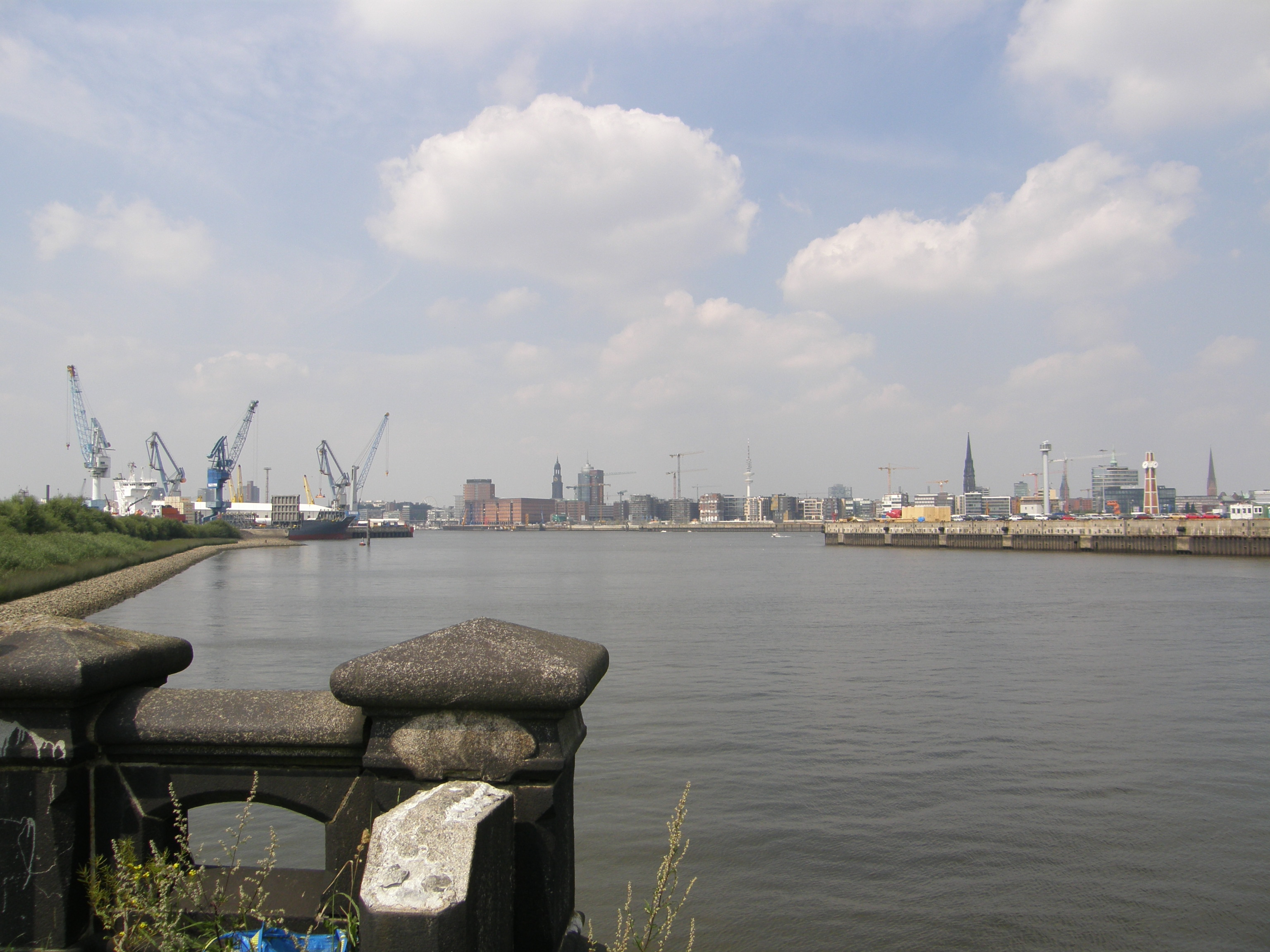 hamburg port of hamburg